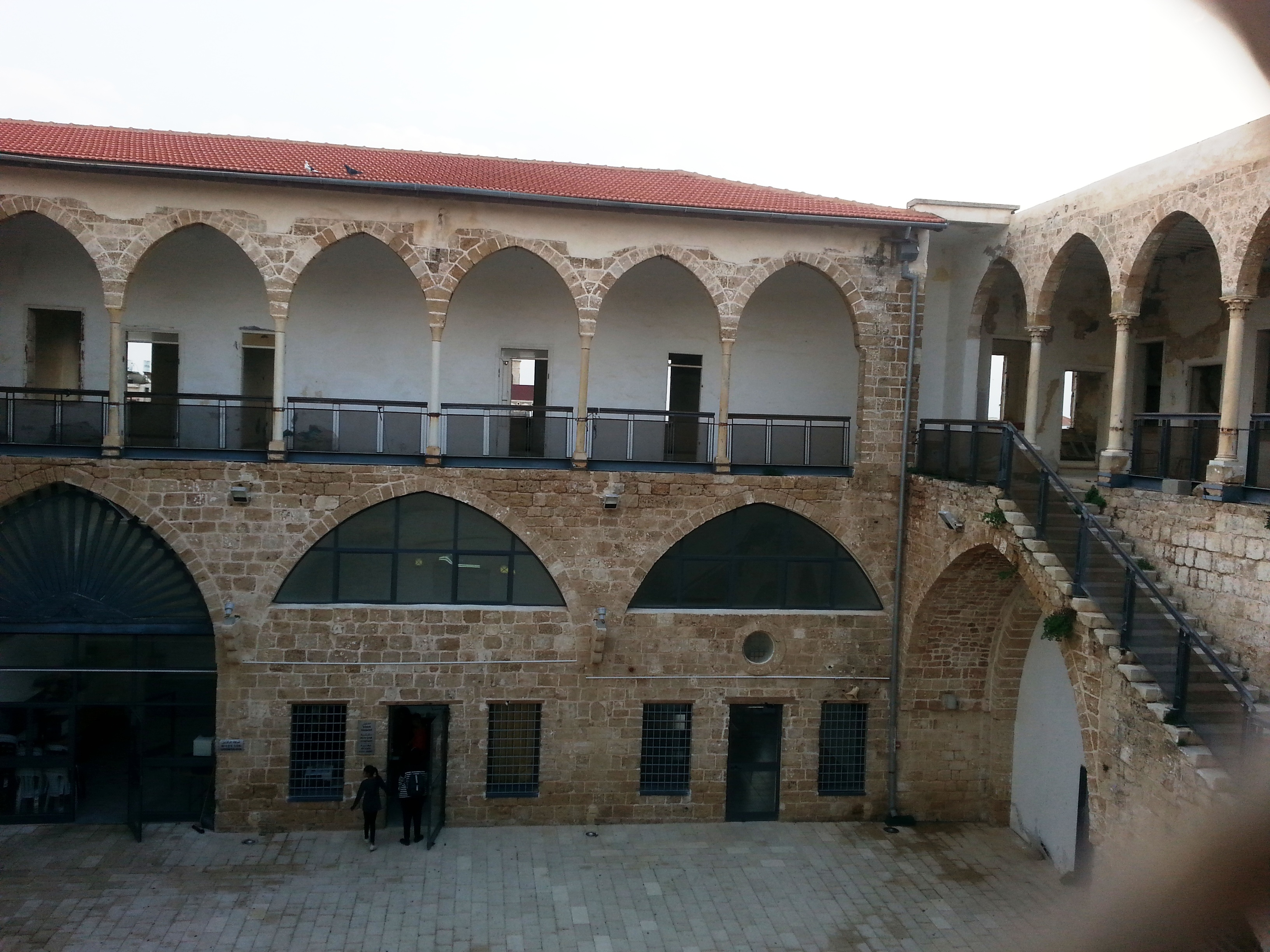 Old Seraglio in Akko, Israel